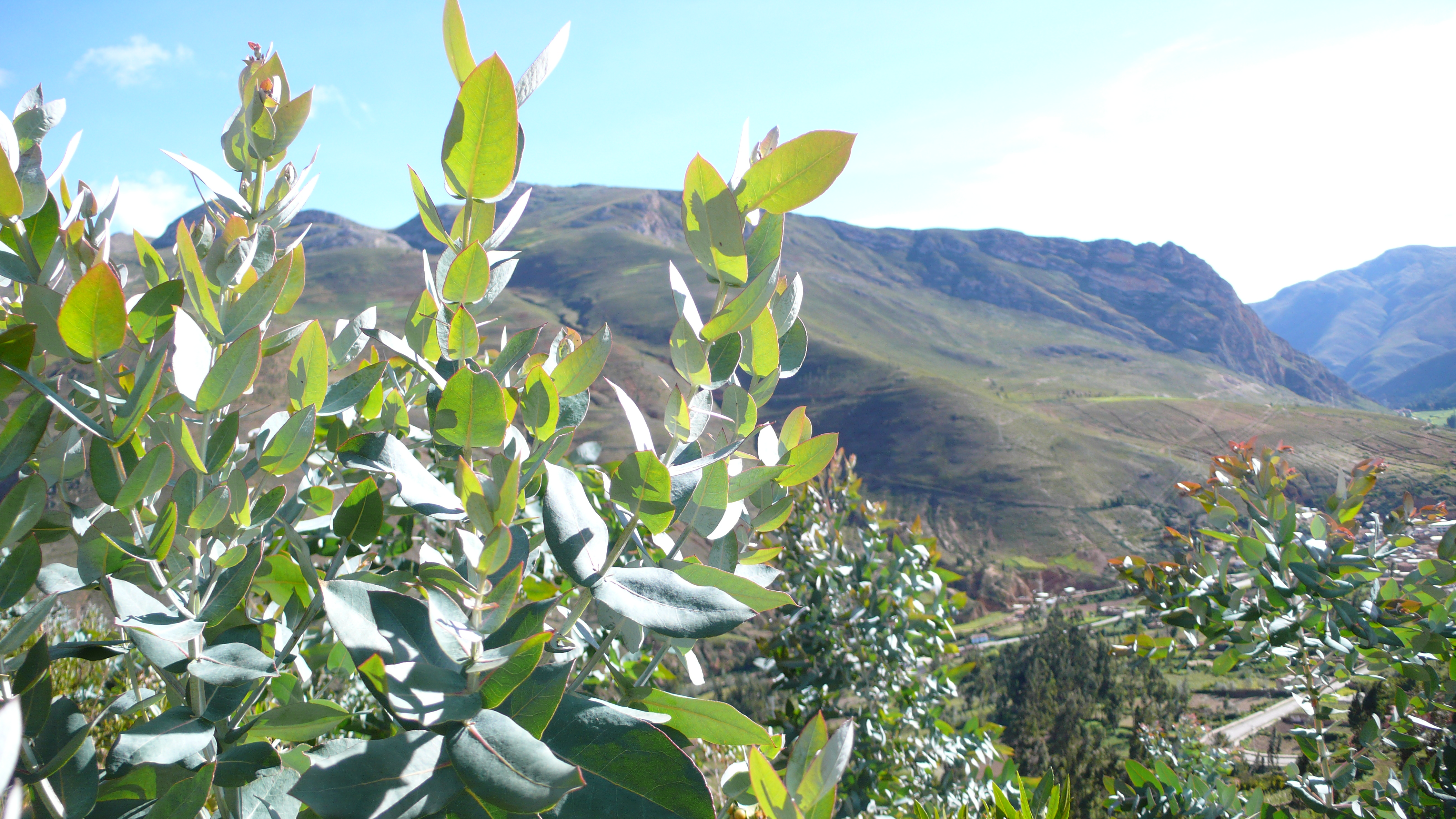 Eucalyptus at Acobamba, Tarma, Junín, Peru.